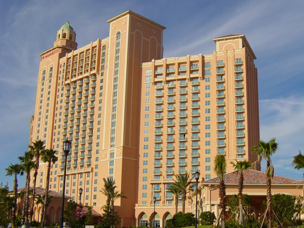 Photograph of the JW Marriott, Grande Lakes, Orlando, taken in November 2004.